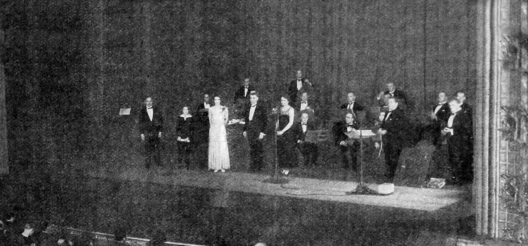 Photograph of the debut broadcast of the radio series The Adventures of Sherlock Holmes, taken at NBC's Times Square studio. The episode, "The Adventure of the Speckled Band", starred William Gillette as Sherlock Holmes and Lucile Wall in the female lead. Caption reads as follows: The above photograph was taken at the NBC's Times Square studios at the conclusion of the initial broadcast of the mystery series, The Adventures of Sherlock Holmes. In the group on the stage are William Gillette, veteran stage actor, famous for his characterizations of the fictional master mind, who enacted the role just once again for the microphone, and Edith Meiser, who adapts the late Sir Arthur Conan Doyle's stories for radio broadcasting. The series is sponsored by the George Washington Coffee Company.